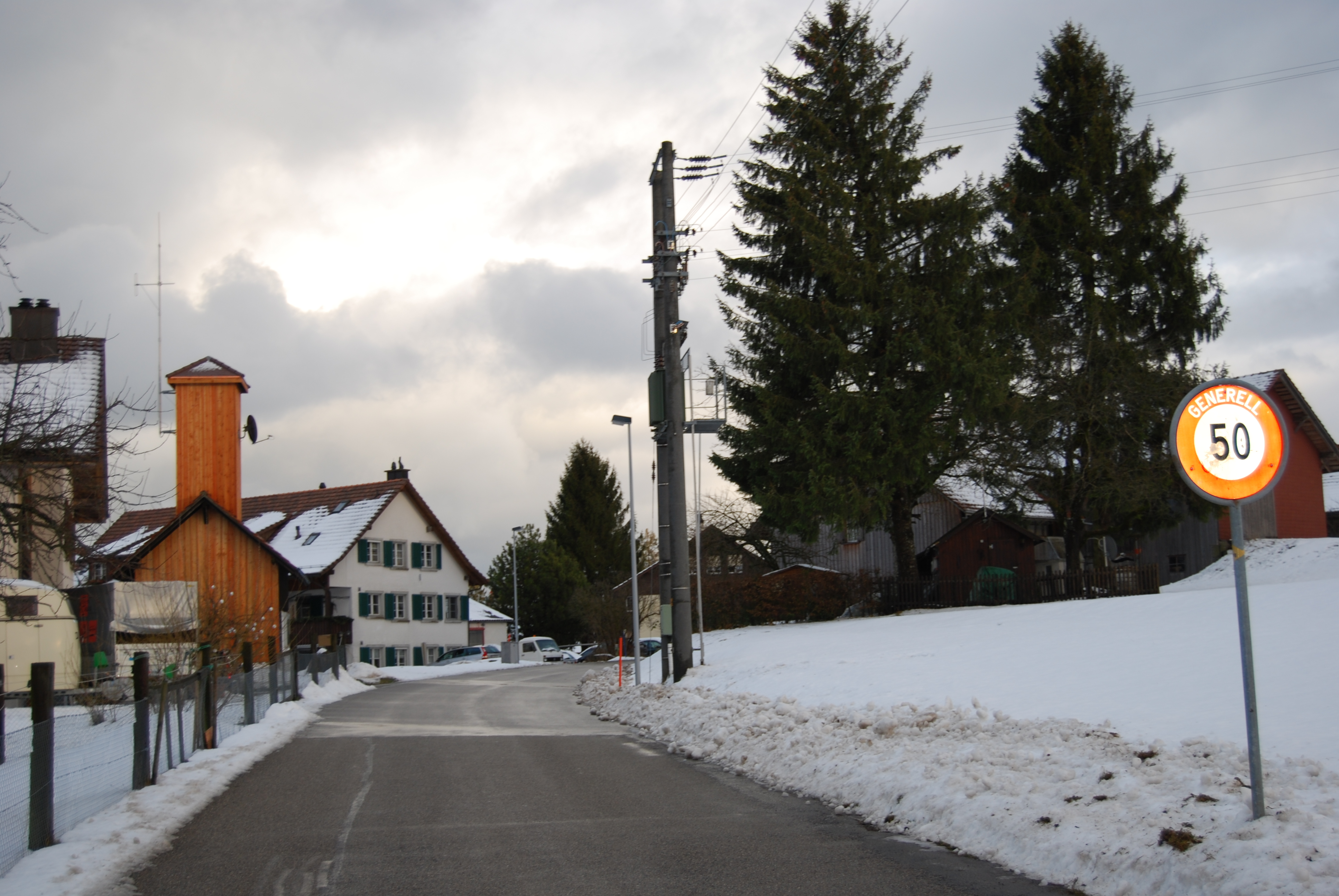 Huggenberg, municipality of Hofstetten, canton of Zürich, SwitzerlandEsperanto: Huggenberg, komunumo Hofstetten, Kantono Zuriko, Svislando